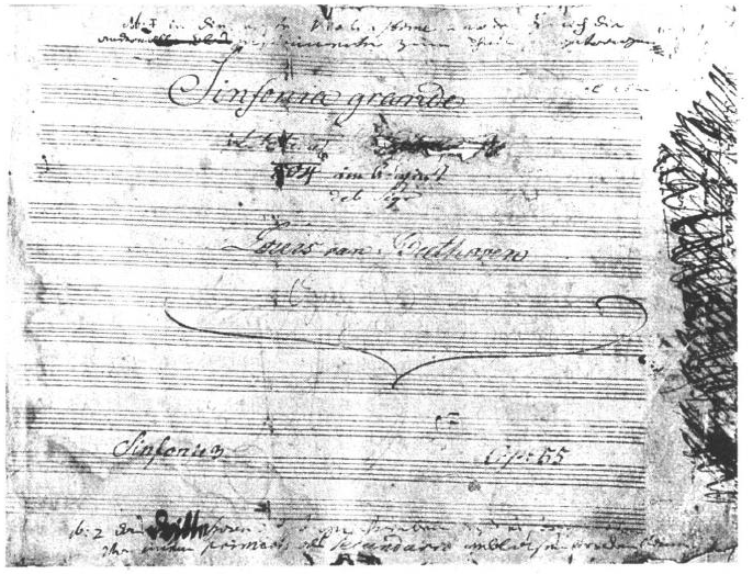 Beethoven Symphony No.3 cover.